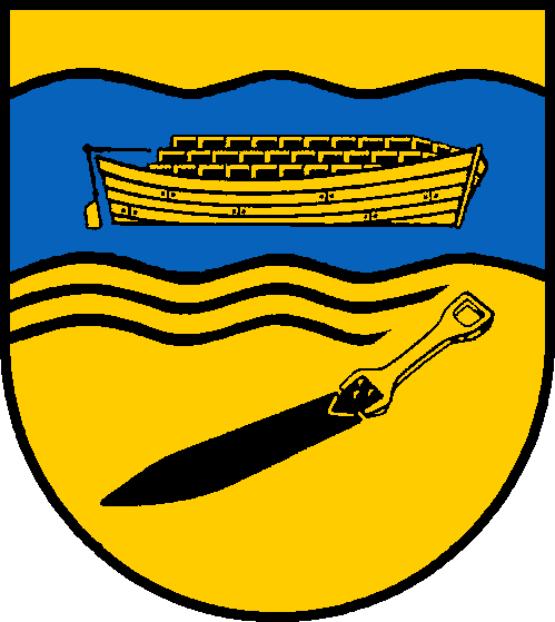 Coat of arms of the municipality Kayhude in Schleswig-Holstein, Germany.